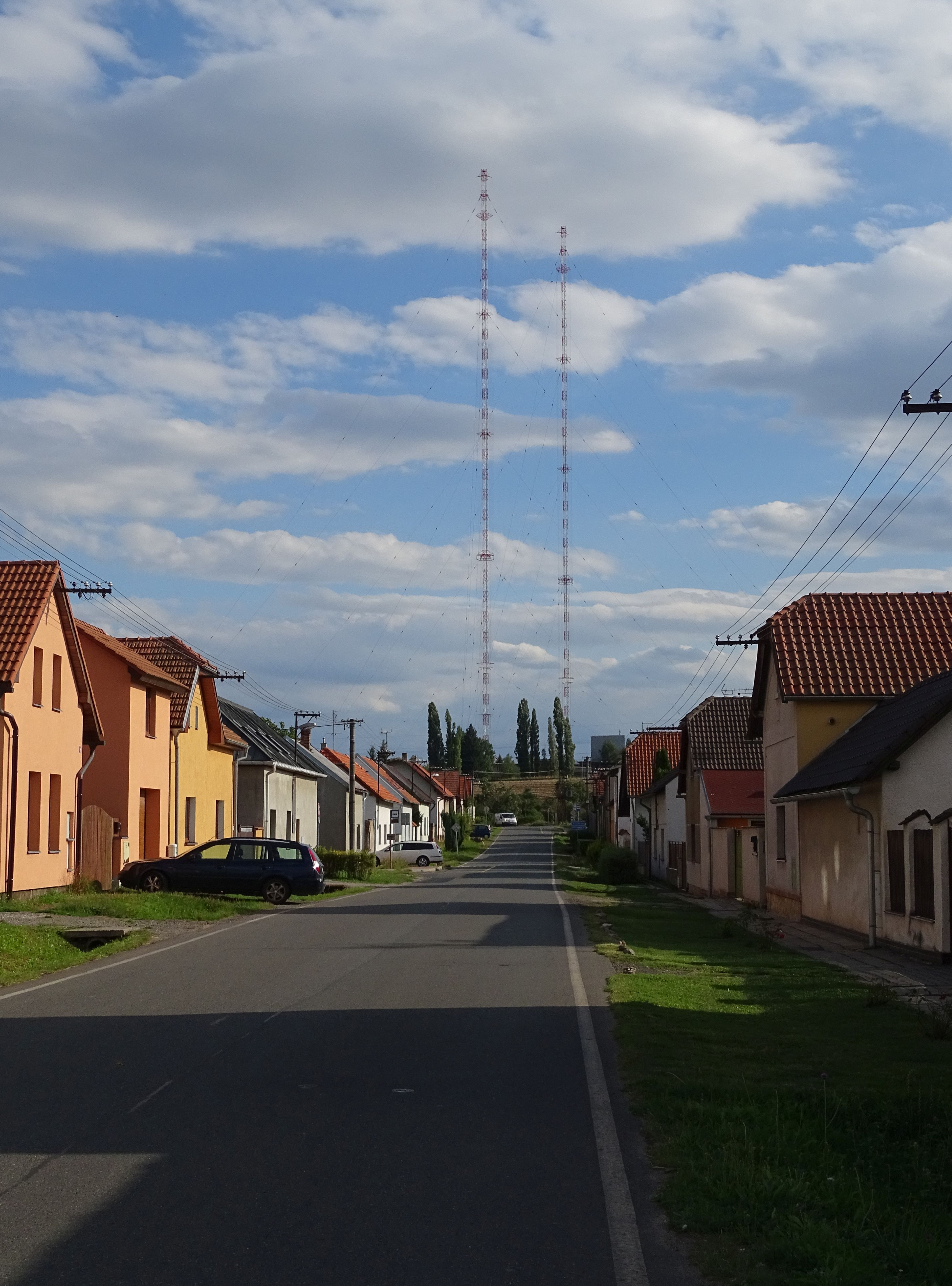 Český Brod-Liblice, Kolín District, Central Bohemian Region, Czechia. Bylanská street.